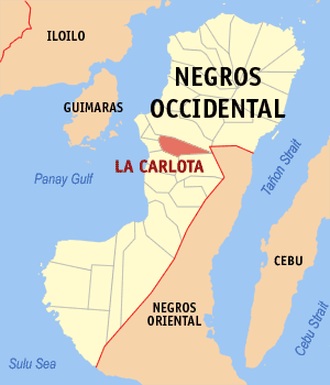 Map of Negros Occidental showing the location of La Carlota